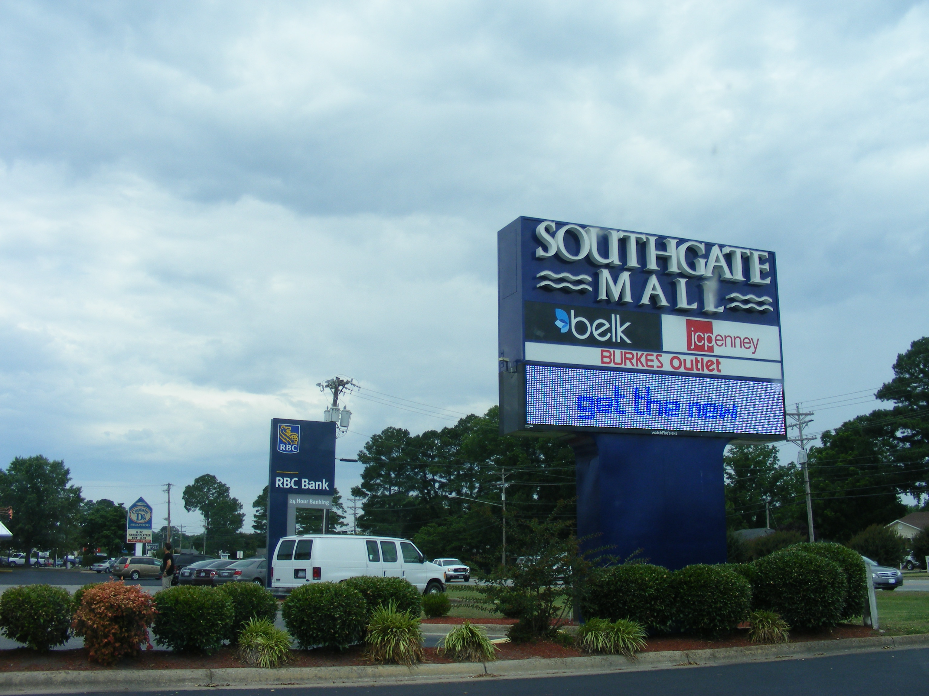 My own work; photograph of Southgate Mall entrance sign.